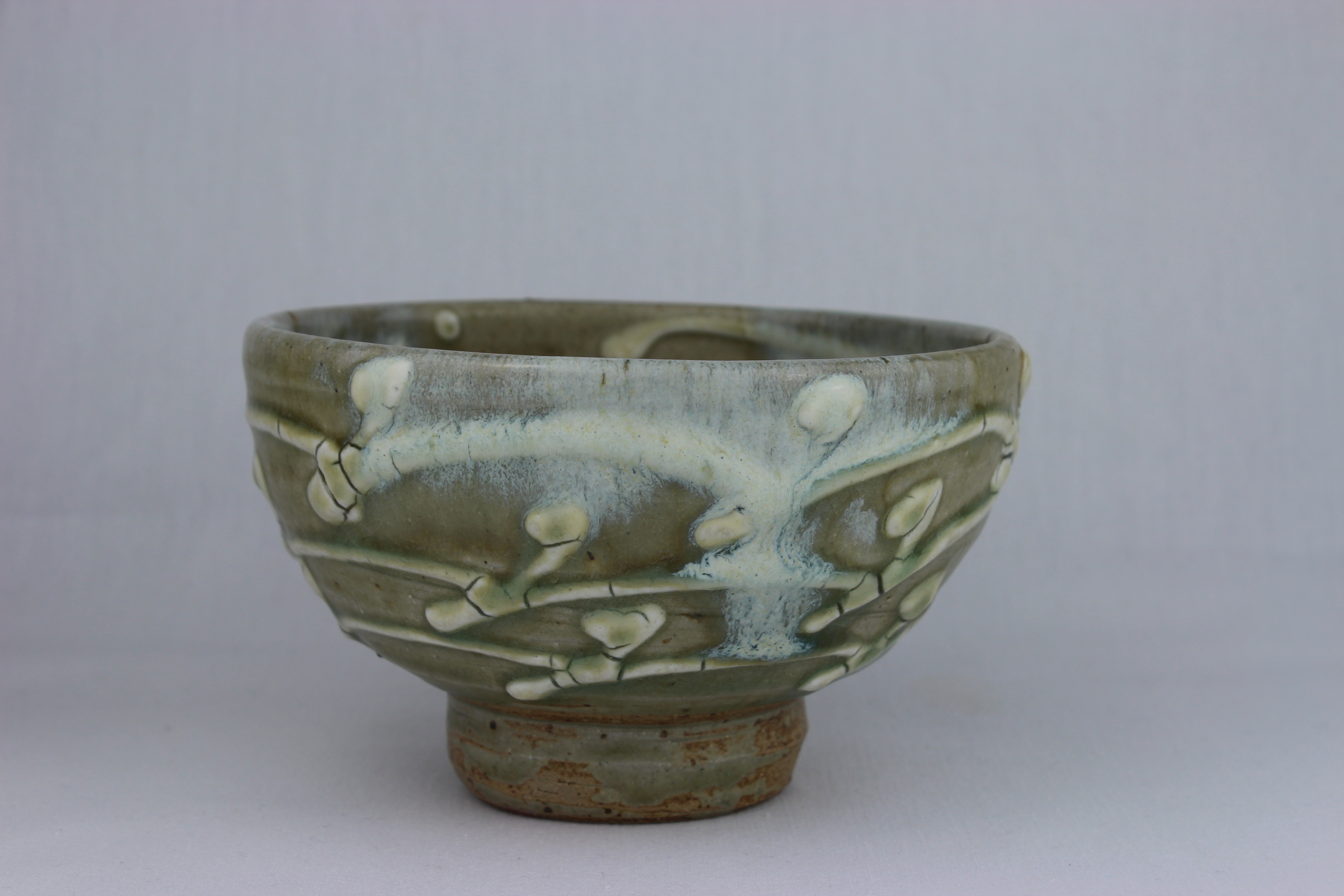 Pale green bowl with white slip trailed decoration. From the W.A. Ismay Studio Ceramics Collection at York Art Gallery